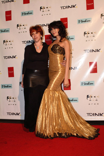 Celeste Thorson and D'Voshion designer Natalie Vorontsoff on red carpet at Mercedes Benz and Tdink magazine sponsored runway fashion show at club Area in West Hollywood, California.